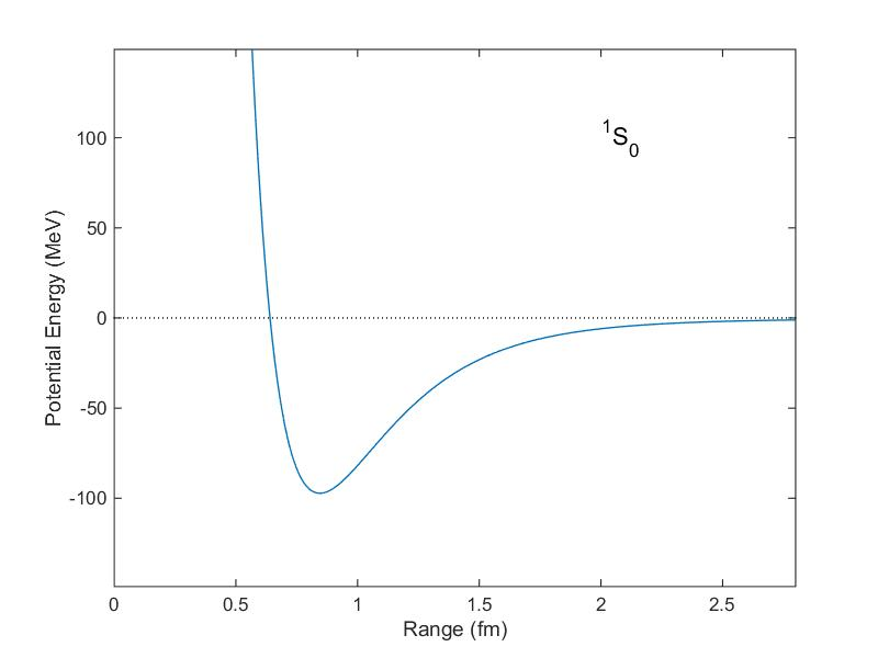 Potential energy of the 1S0 state of the nuclear force as computed according to equations by Reid, R.V. (1968). "Local phenomenological nuclean-nucleon potentials". Annals of Physics 50: 411–448.